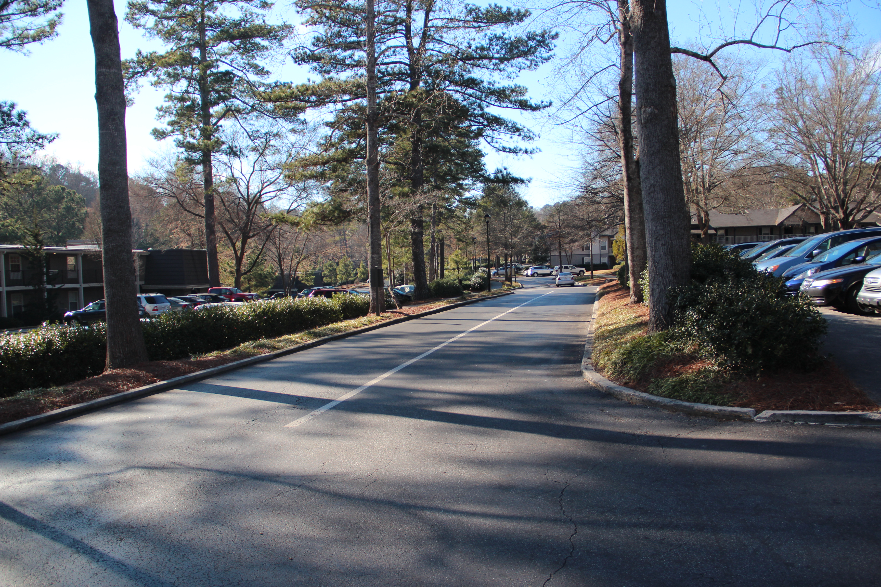 Walton on the Chattahoochee, Cobb County, GA